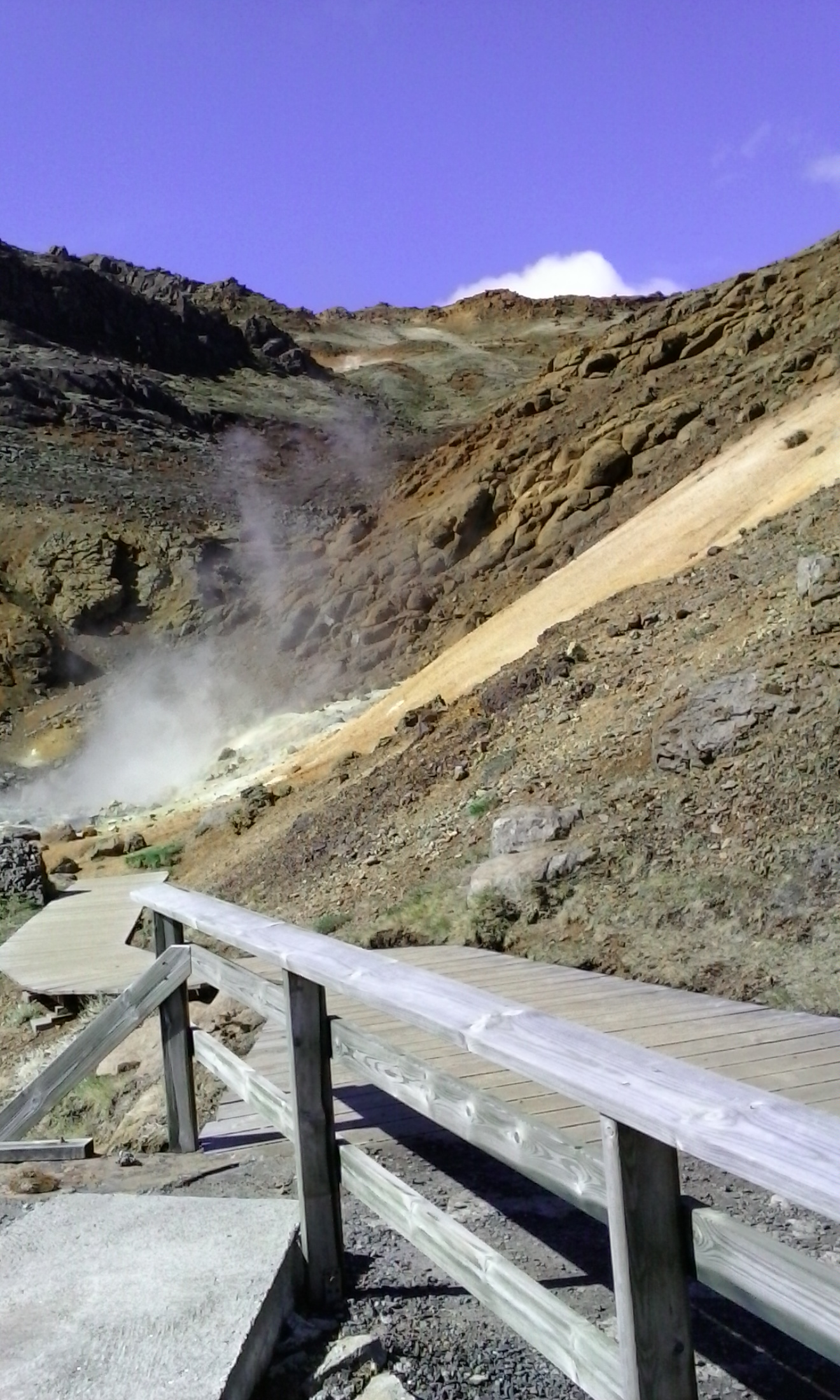 Krýsuvík-Seltún, Reykjanes, Iceland